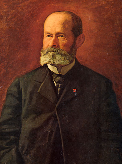 Portrait of Daniel Garrison Brinton. Original owned by the American Philosophical Society.